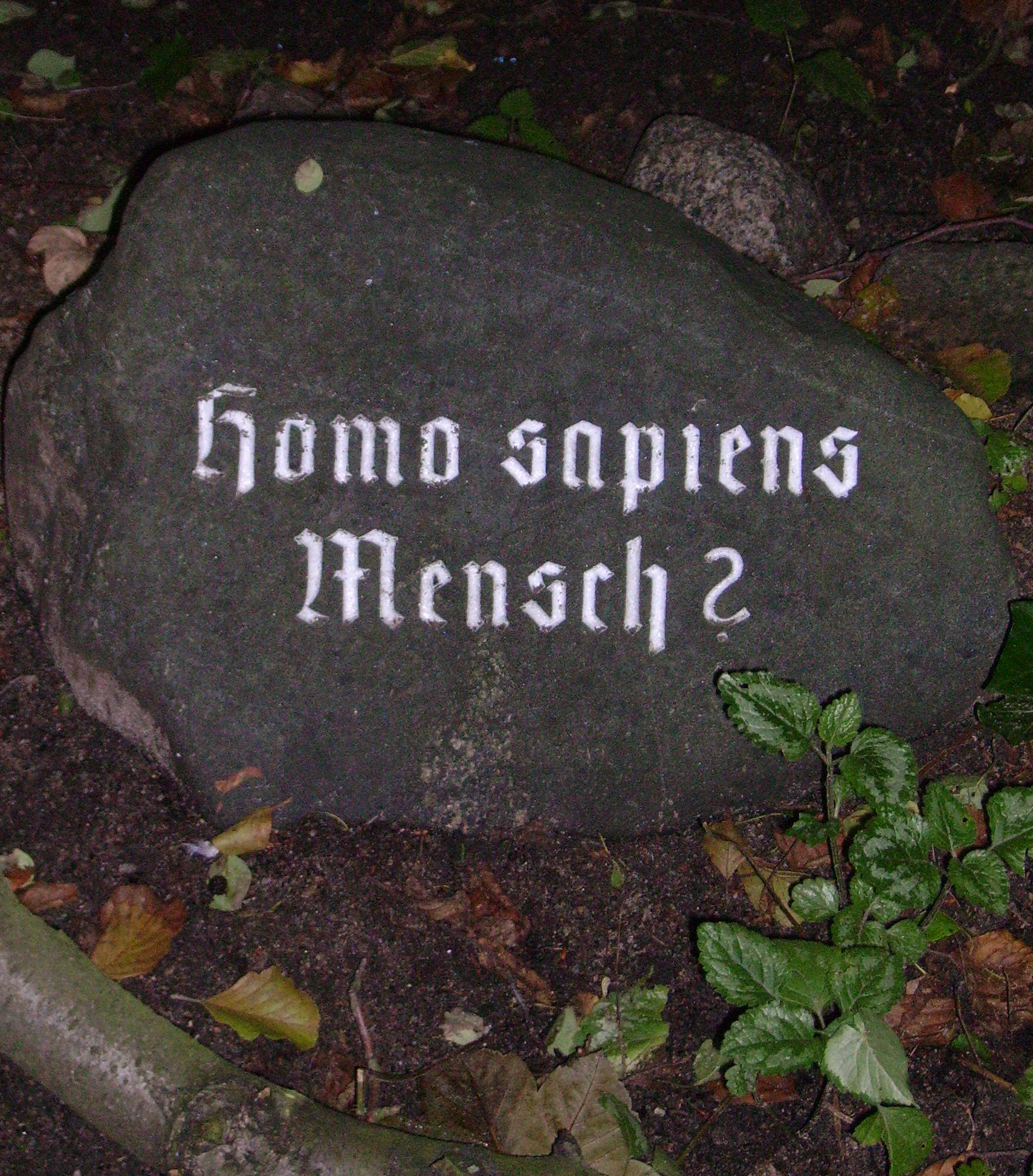 tombstone of homo sapiens at the zoo of Eberswalde, Germany